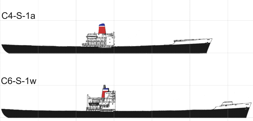 This tracing shows the increase in length acheived after a Type C4 breakbulk cargo ship was lengthened and rebuilt into a Type C6 container ship.